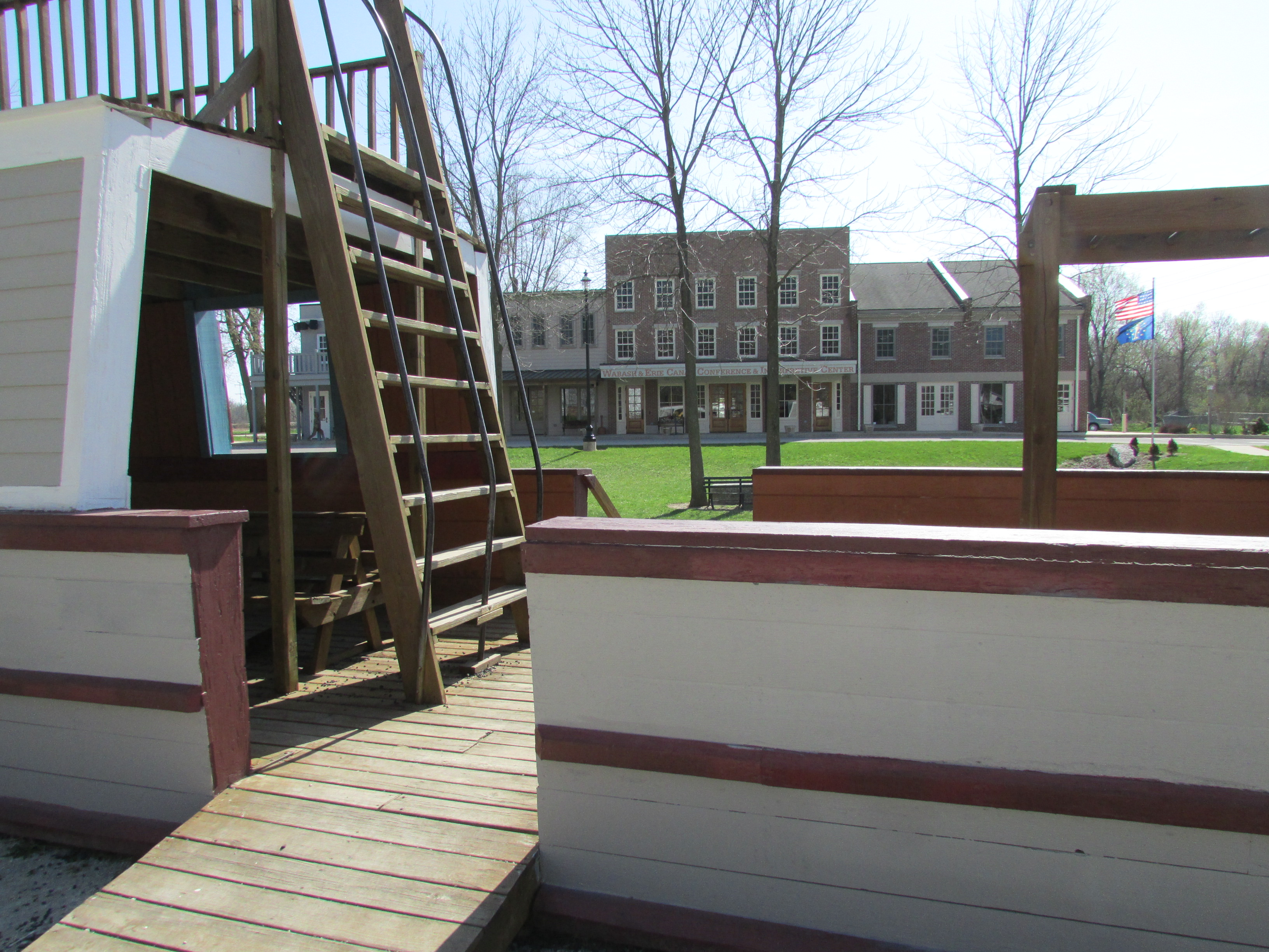 Canal boat at Canal Park in Delphi, Indiana.